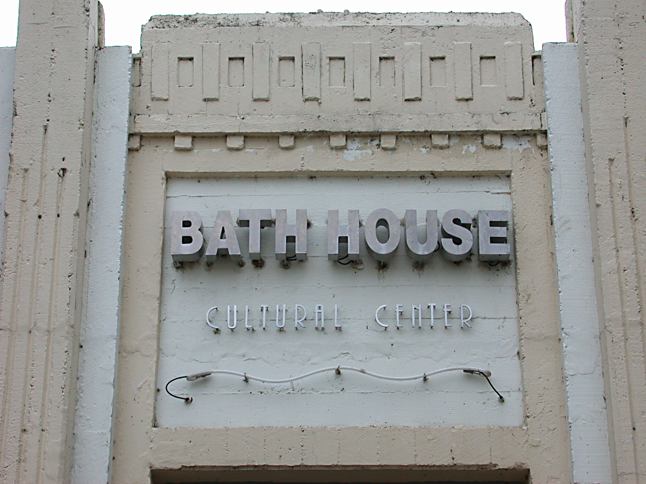 Bath House Cultural Center Dallas, Texas, United States Built in 1930 on what were then the rural shores of White Rock Lake, the "old bath house" was one of the first uses of Art Deco architecture in the southwest.